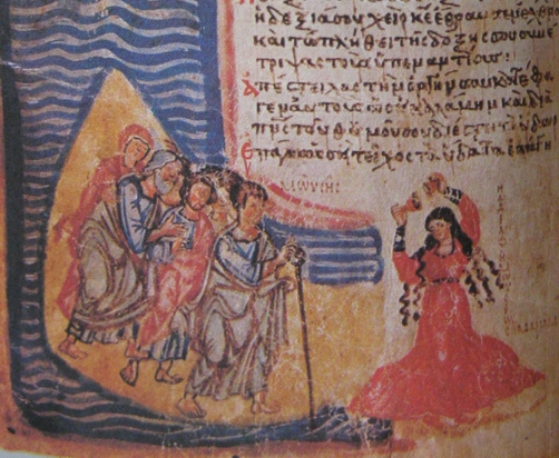 Crossing Red Sea and Miriam dancing. Chludov Psalter